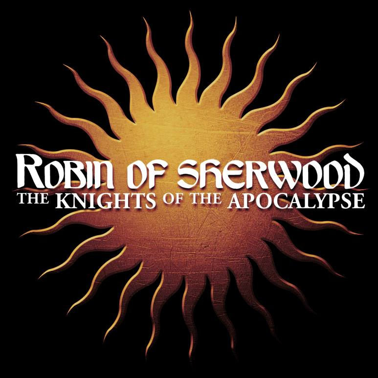 Robin of Sherwood: KOTA logo